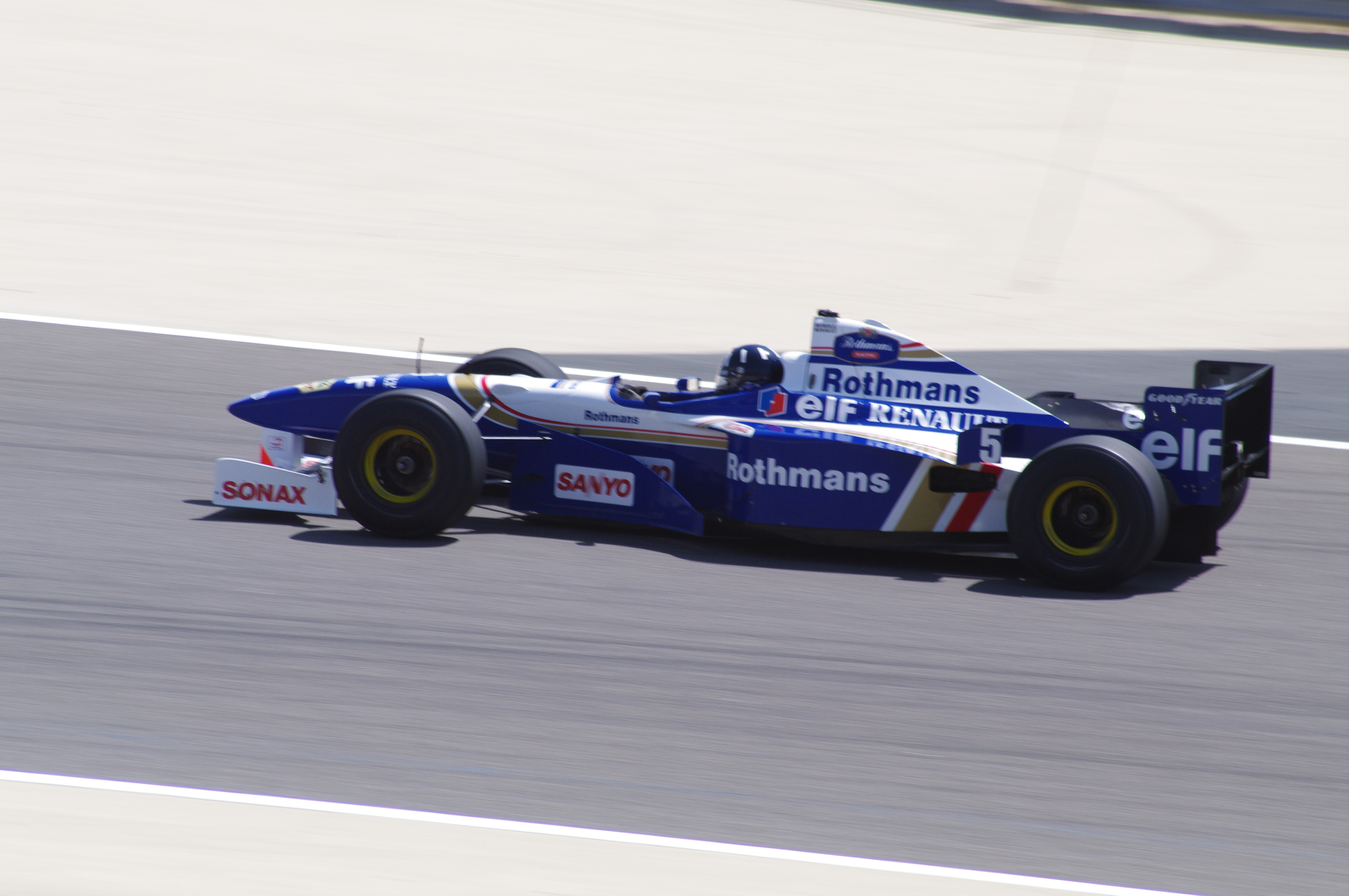 Damon Hill demonstrating his 1996 championship-winning Williams FW18 during the 2010 Bahrain Grand Prix meeting.